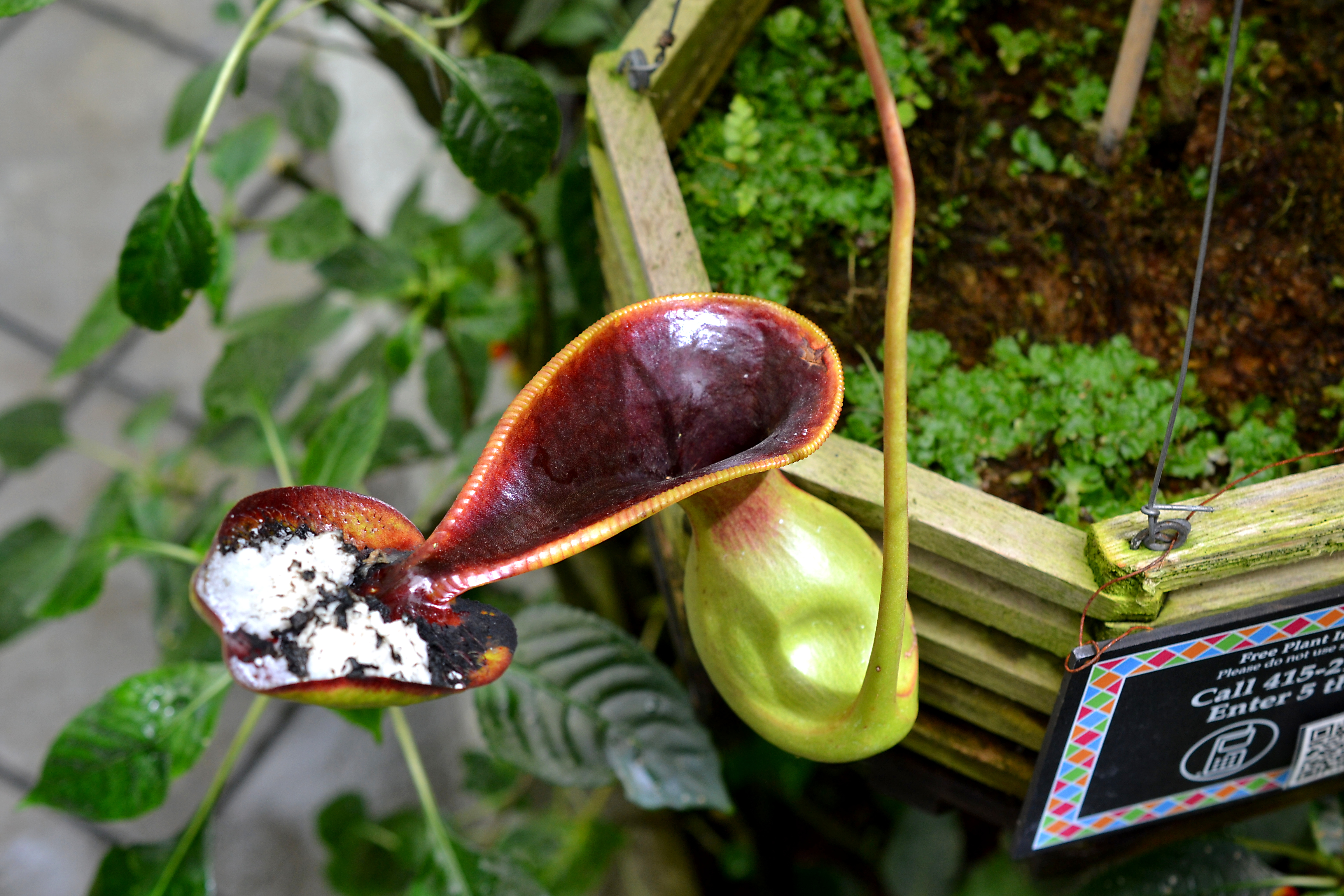 San Francisco Conservatory of Flowers